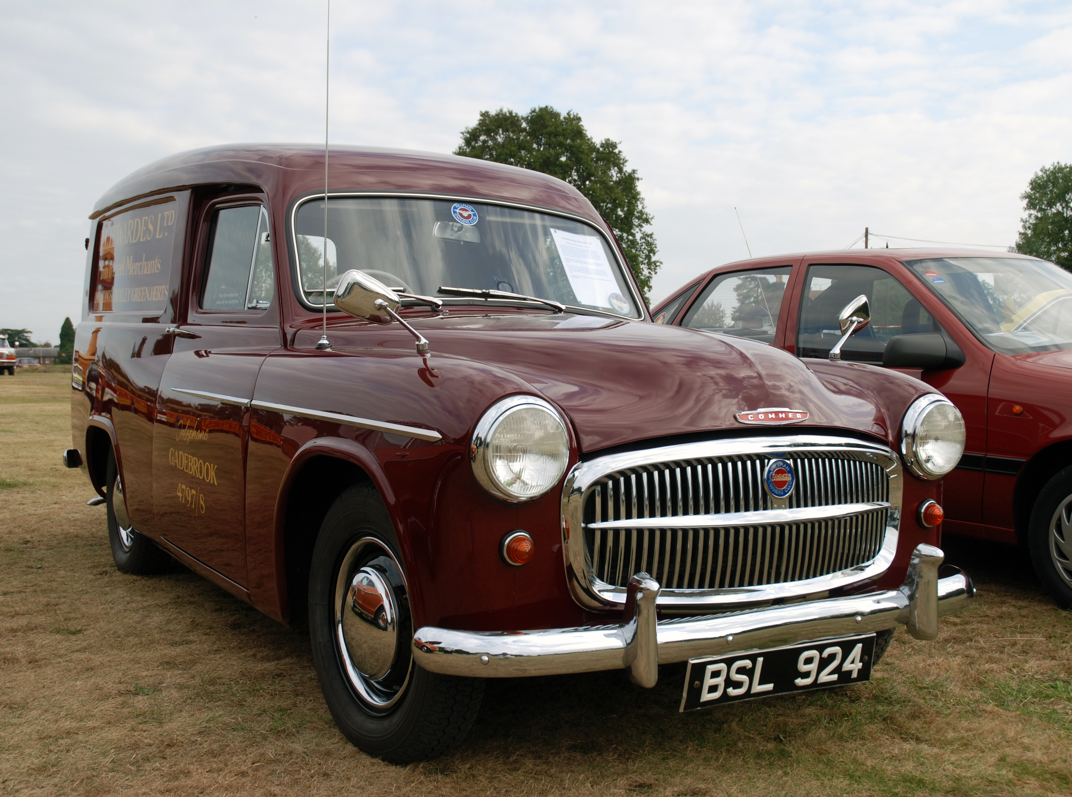 1955 Commer Express Delivery Van. Croxley Green,Sep 2009